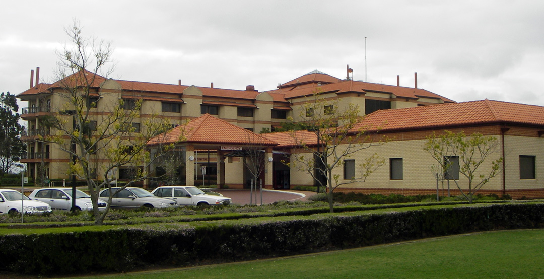 St John of God Hospital. Murdoch, Perth, Western Australia. source user SeanMack - my own photo.